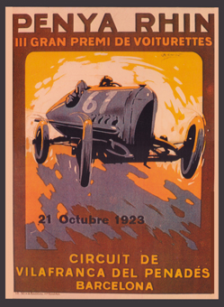 Cartell Gran Premi Penya Rhin al 1923 del Circuit de Vilafranca del Penedès